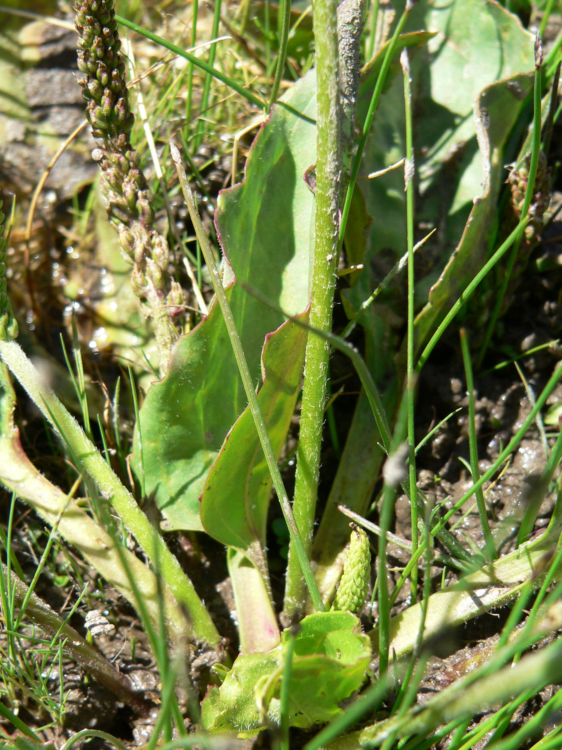 Plantago major at Potosi Spring, 4 km west of Potosi Mountain's summit, Spring Mountains, southern Nevada (elev. about 1700 m)